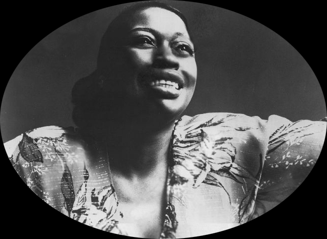 Esther Phillips in 1976.